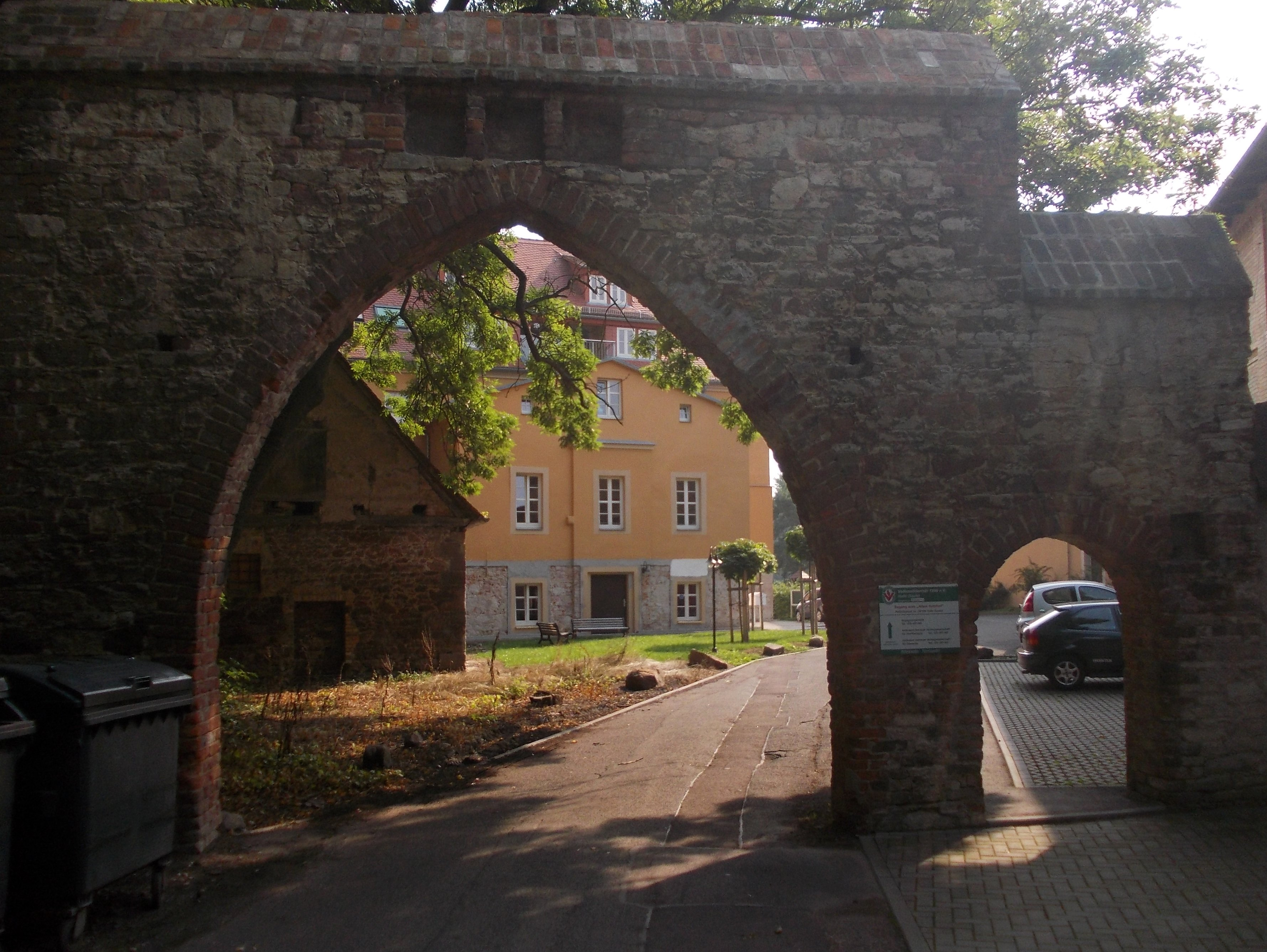 Gimritz Estate on Peissnitz Island in Halle/Saale (Saxony-Anhalt)